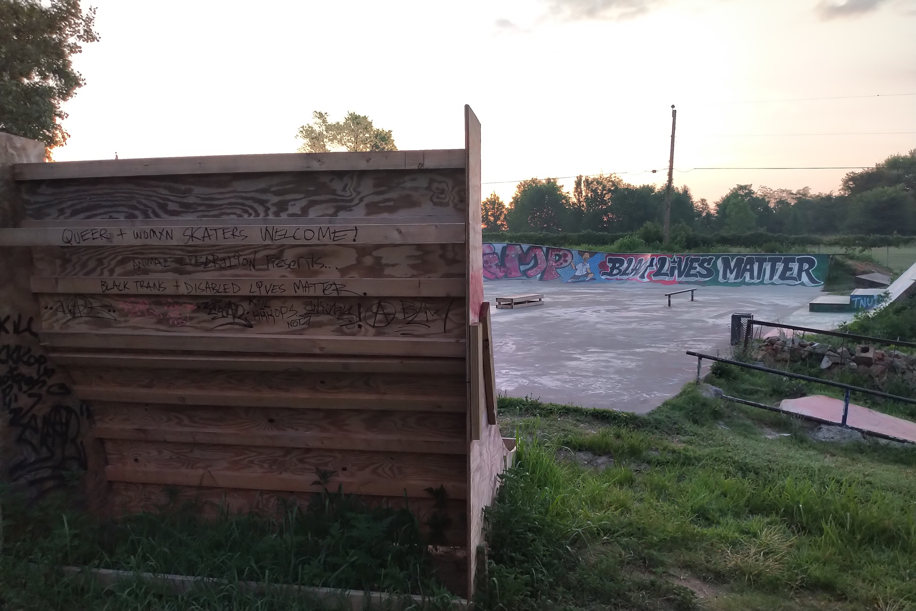 Photo of lower slab of Texas Beach Skate Park, Richmond, Virginia, United States, taken at 0600 (EDT) on Wednesday, July 15, 2020